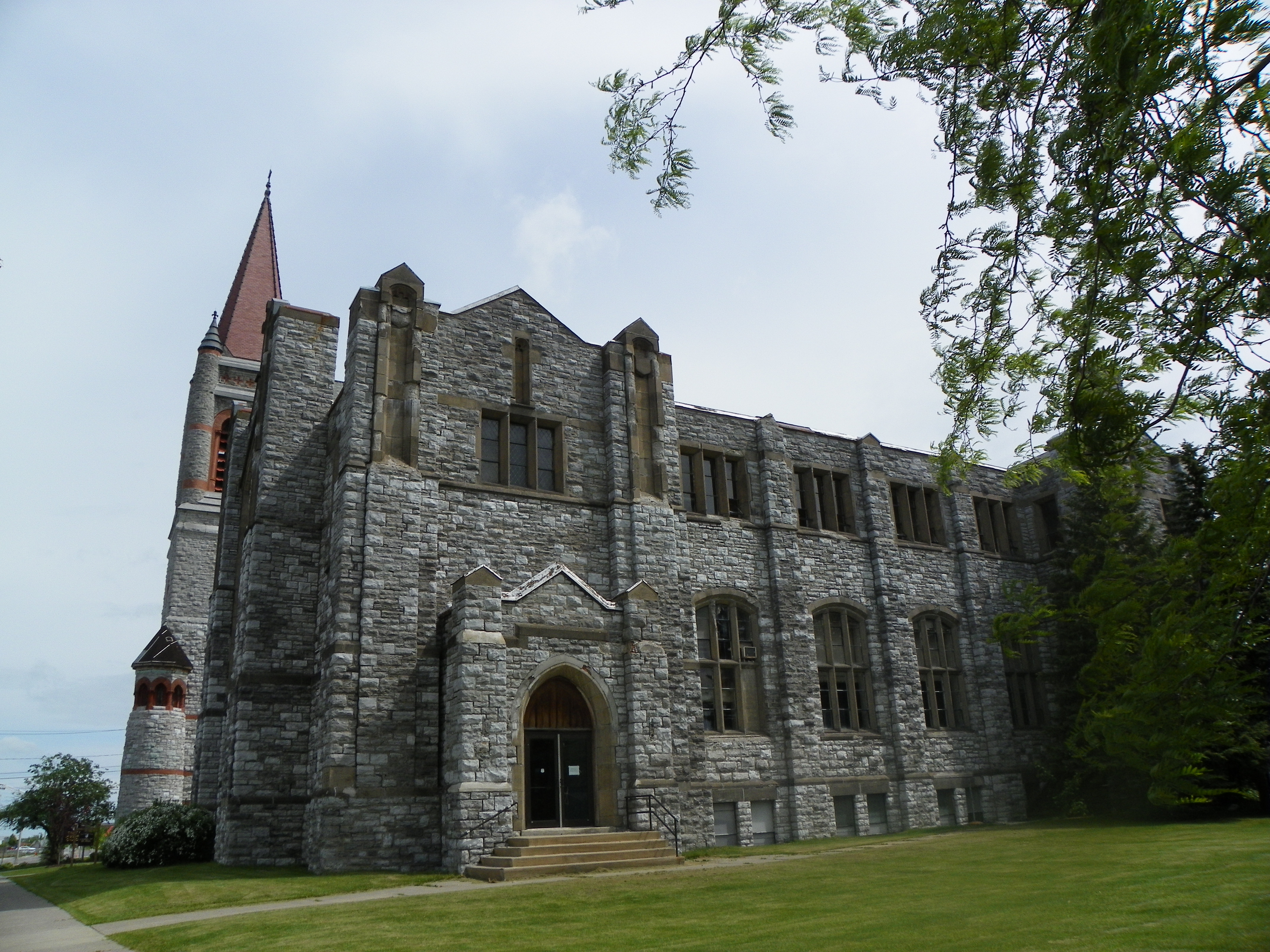 Trinity Episcopal Church Parish Center, Watertown, NY.